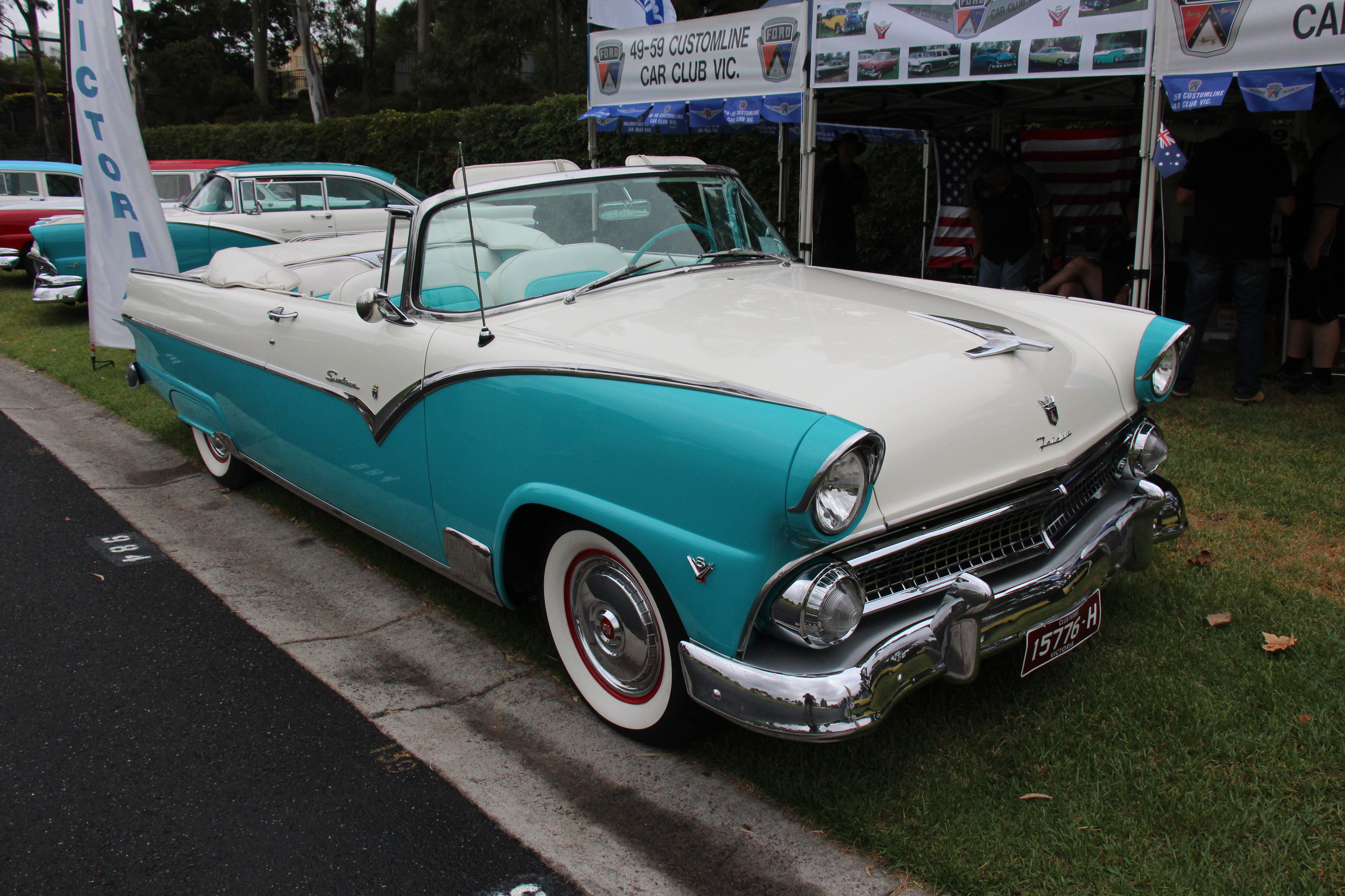 Aquatone Blue / Colonial White. The 1955 Fords shared the same structure as the 1954 Ford. New features included Thunderbird inspired tailfins, wrap around windshield, forward leaning headlight bezels and body side trim. The new trim lent itself to two tone paint. Factory air conditioning was now available. The Mainline, still the base model, available in 2 and 4 door Sedan. The Customline still the mid spec, also available in 2 and 4 door Sedan, more chrome and better interior trim. The Fairlane was now the top, replacing the Crestline. Post cars were the 4 door Town Sedan and the 2 door Club Sedan, the Sunliner was the convertible, the 2 door Club Victoria was pillarless Coupe, the Crown Victoria Coupe had a chrome band up the B pillar and across the roof, the 'Skyliner' option came with an acrylic roof in front of the chrome band. Wagons were the 2 door Ranch Sedan, 4 door Country Sedan and 4 door Country Squire (wood panelling) Unique to Australia was V8 Mainline Coupe Utility, (the US front clip and the chassis from the US 2 door convertible) They were built in Australia, along with the V8 Customline Sedan and a few Customline wagons. Engines; 120hp 223 6 cyl OHV or 162hp 272 and 193hp 292 Y block V8s